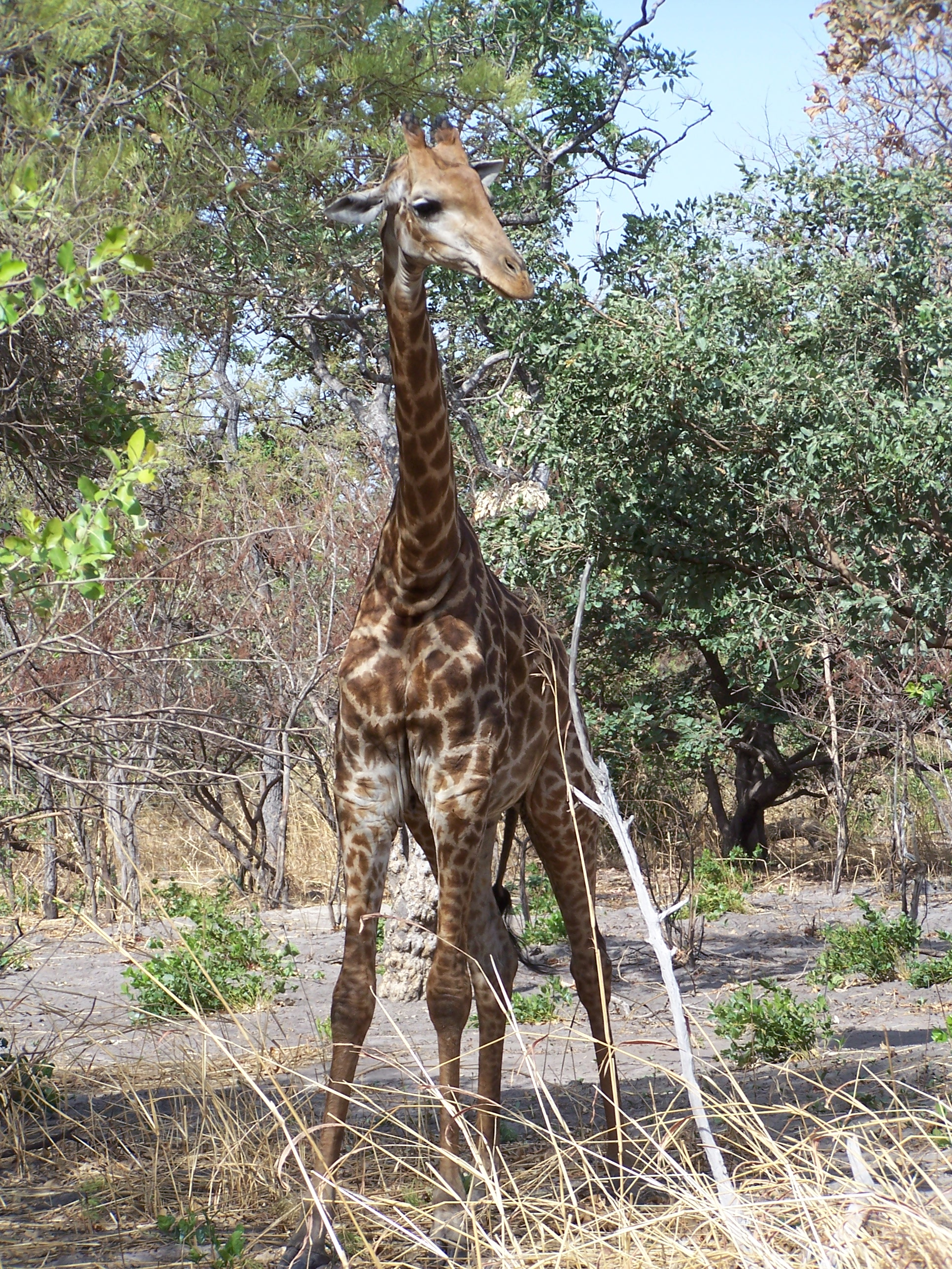 Giraffe in Senegal, imported from South Africa